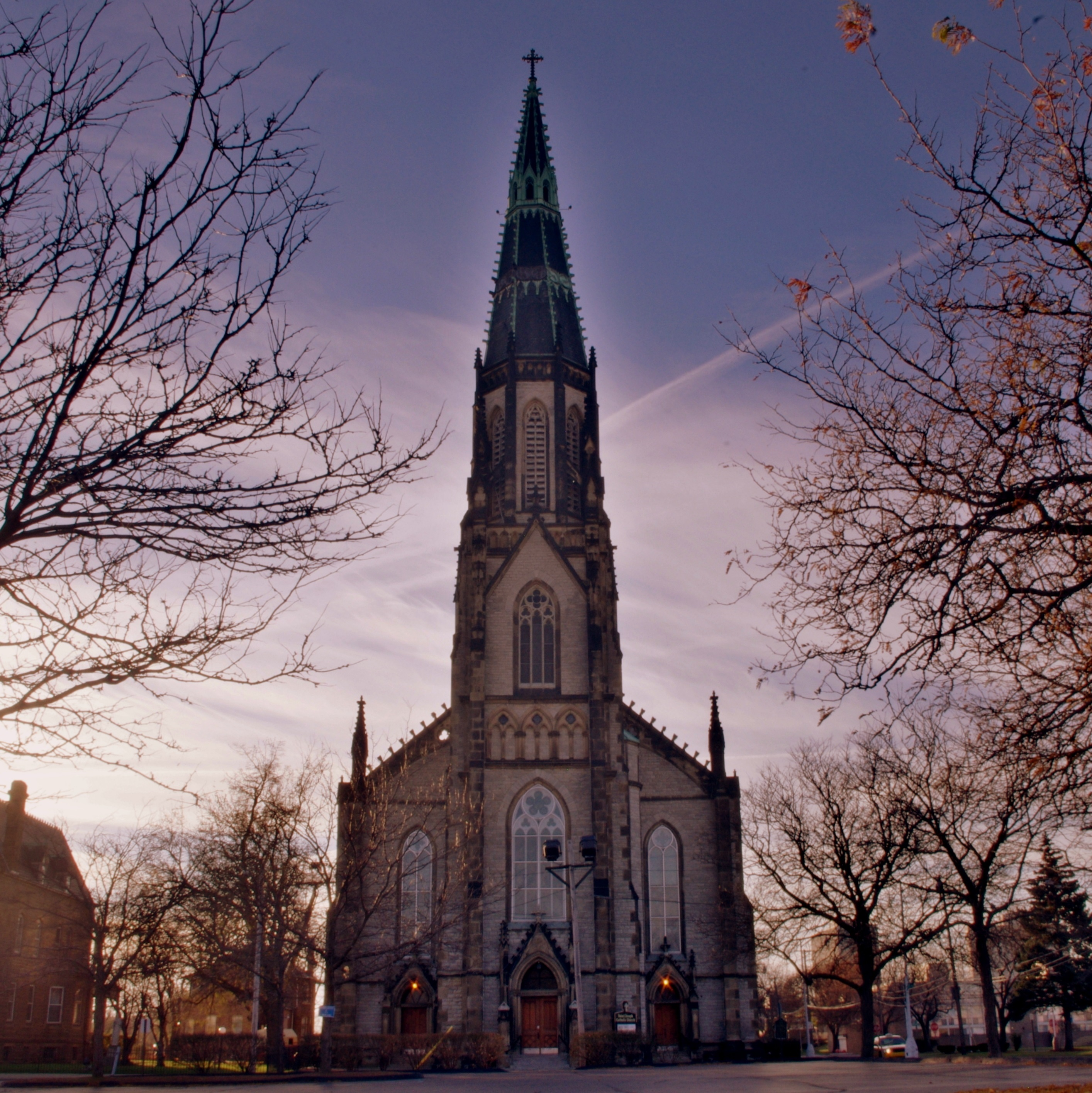 Saint Joseph Catholic Church (Detroit, MI) - exterior